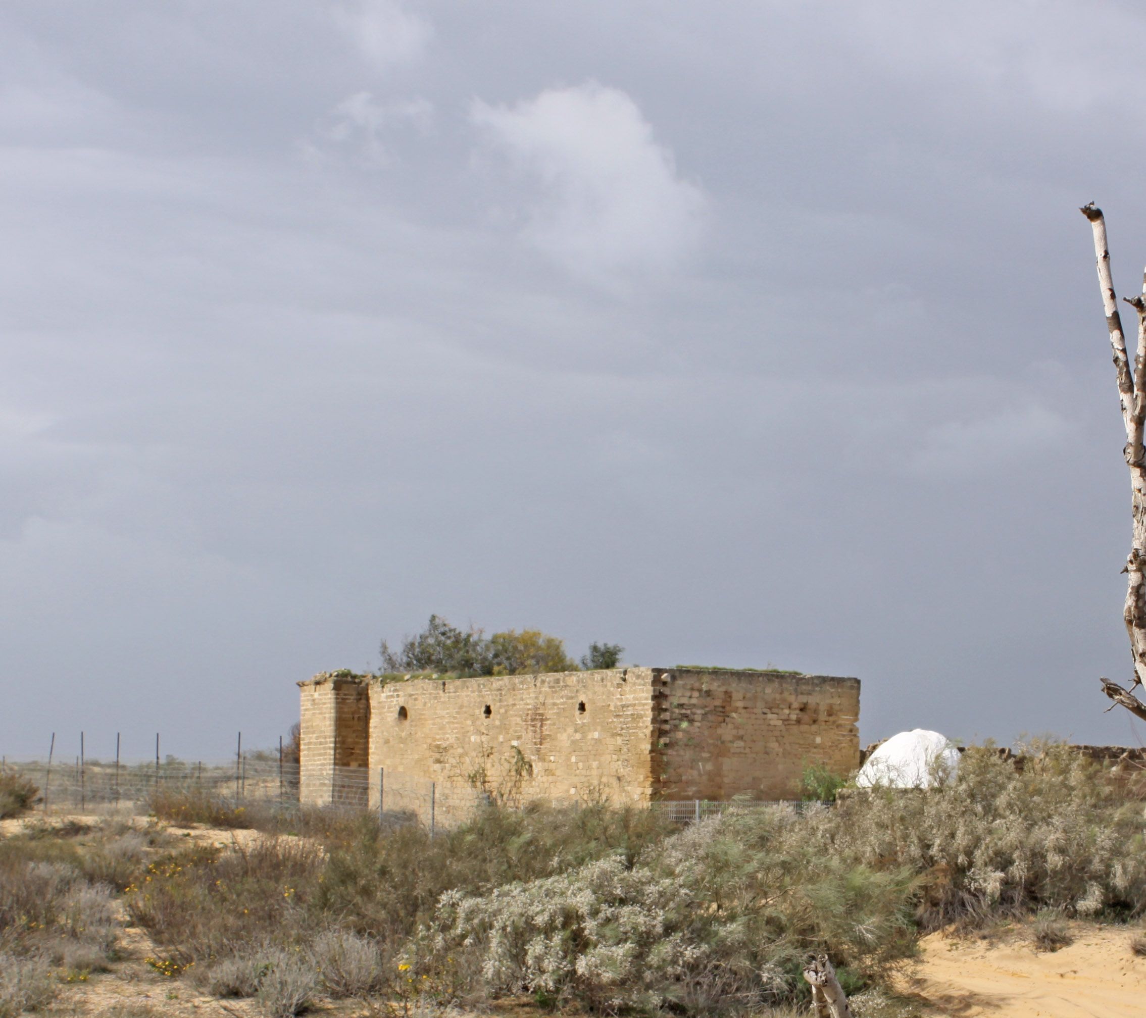 Nabi Rubin, view to the north, 2012.